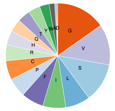 LOC101929193 amino acid composition